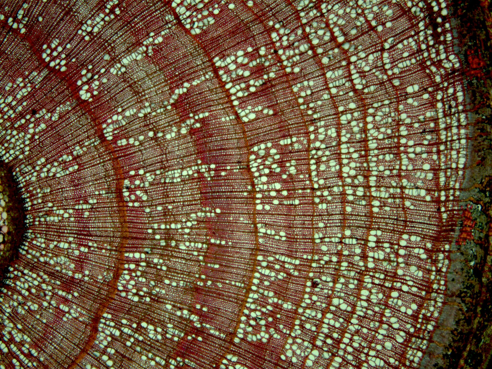 Bole cross section of common hazel (Corylus avellana)